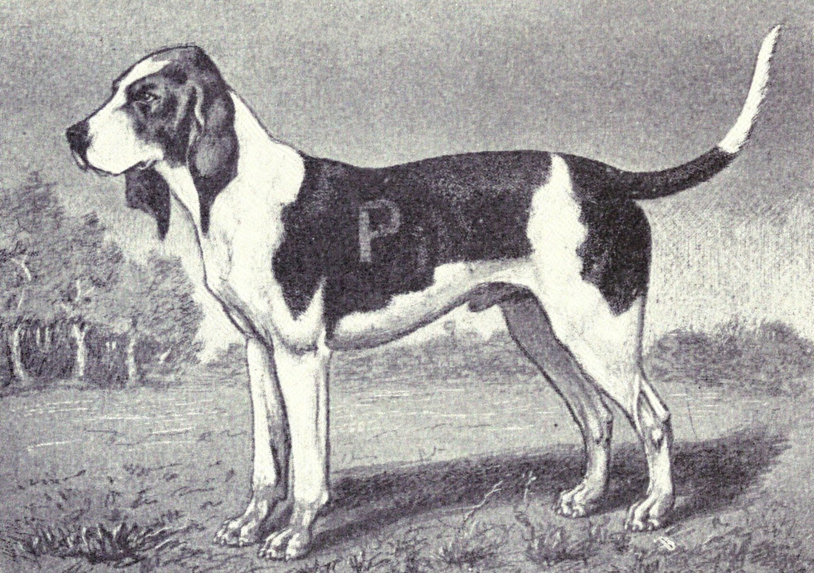 French breed Artois from 1915